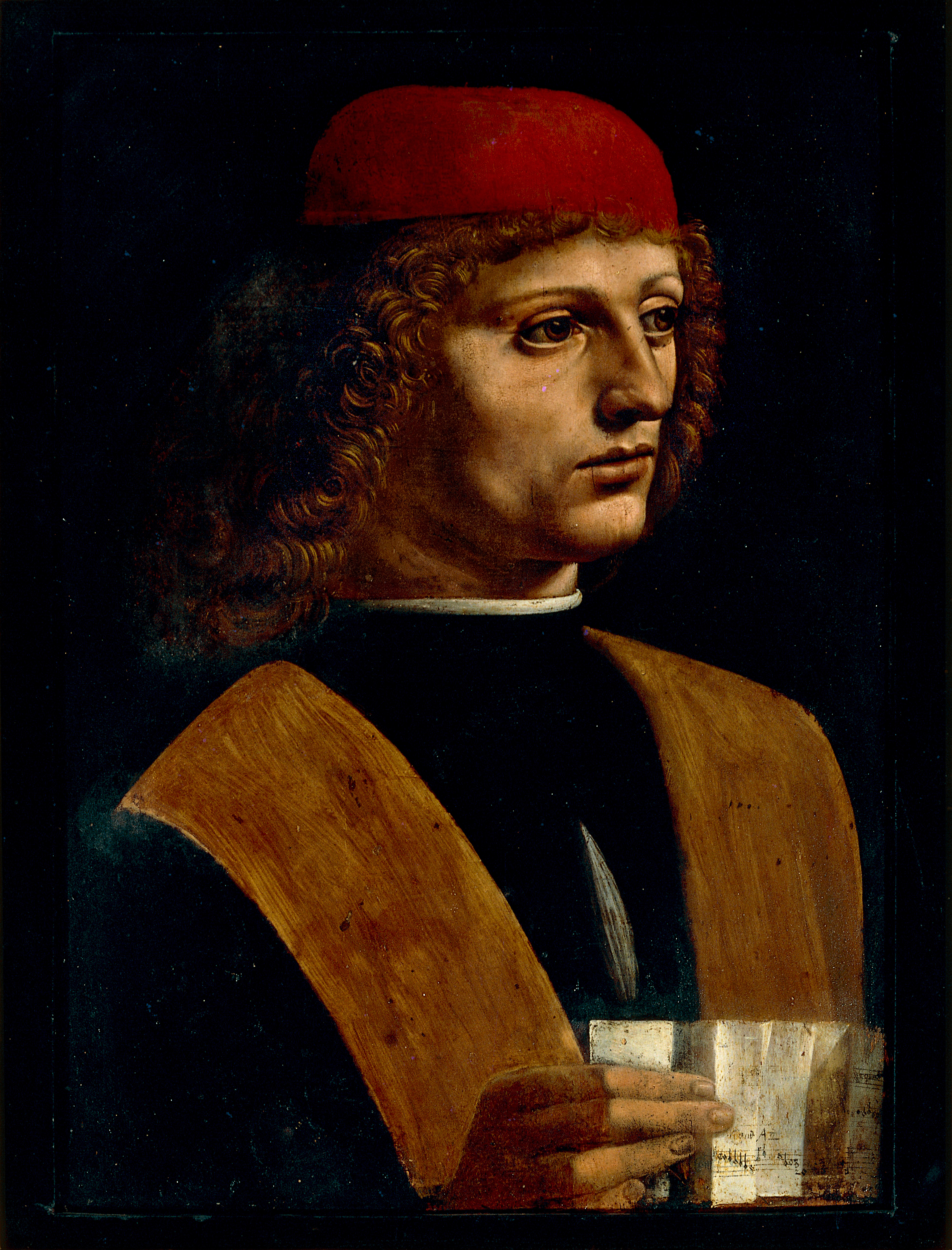 Portrait of a Musician is an unfinished portrait painting widely attributed to Italian Renaissance polymath Leonardo da Vinci, dated c. 1485–1490. Painted in oil on a walnut wood panel, it is Leonardo's only known male portrait, whose identity is unknown, and has been closely debated among scholars. Until the 20th century it was thought to depict Ludovico Sforza, a Duke of Milan and employer of Leonardo. During a 1904–1905 restoration, the removal of overpainting revealed a hand holding sheet music, indicated that the sitter may be a musician. This version is from the website of the Ambrosiana, the museum that house it, and has darker and more realistic tones that are not sacrificed by the flash of a camera.